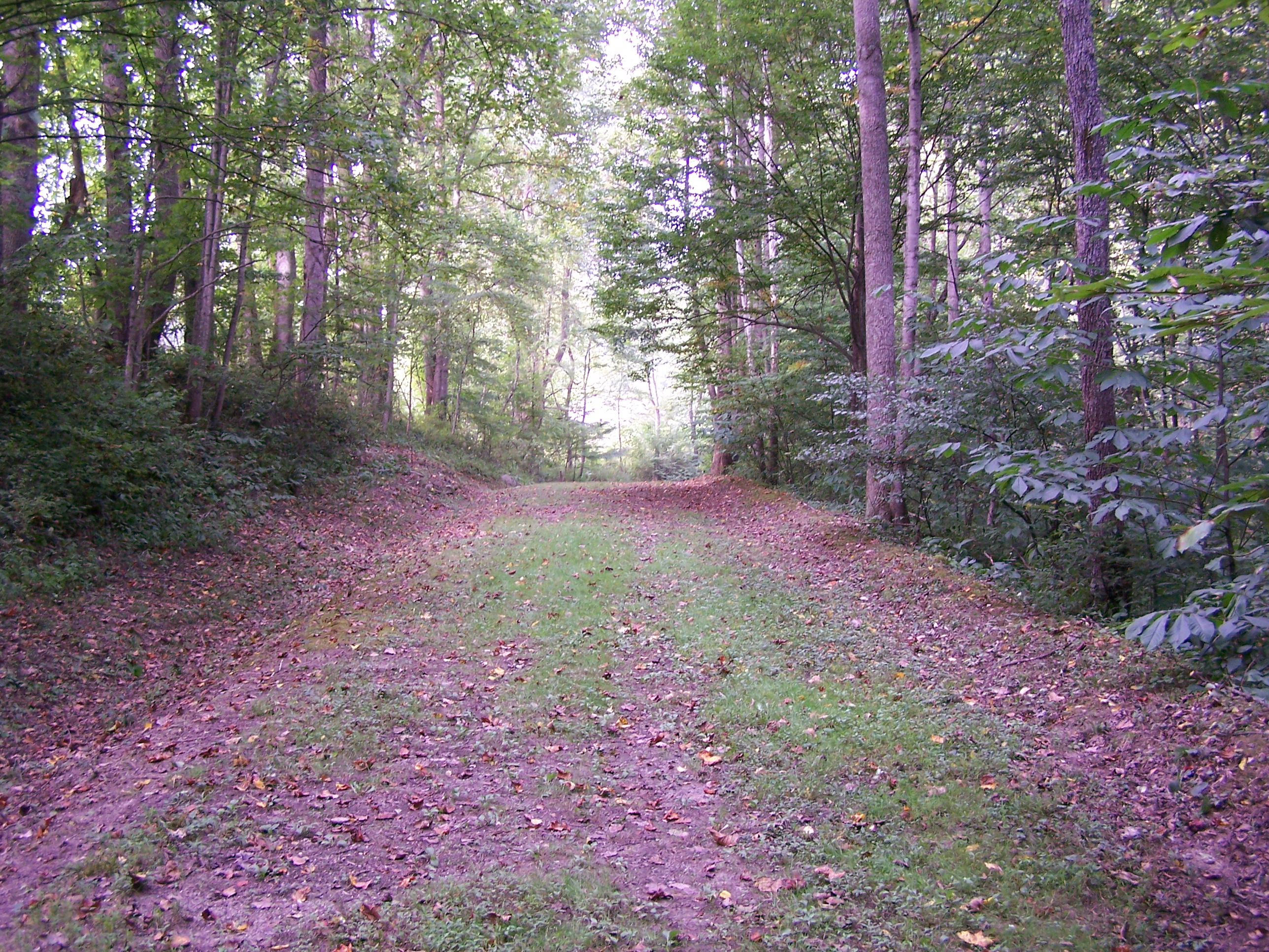 Weston and Gauley Bridge Turnpike protected at Bulltown, West Virginia near Burnsville Lake.